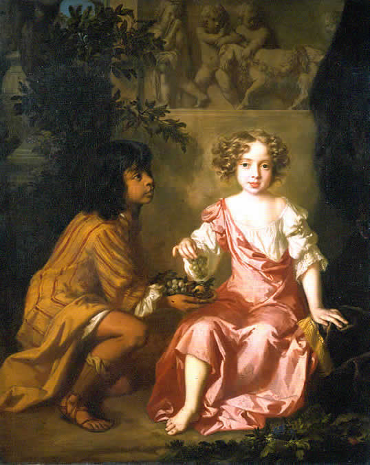 Charlotte Fitzroy, daughter of Charles II, with an Indian servant girl, painted by Peter Lely in 1674, collection of the York Art Gallery.